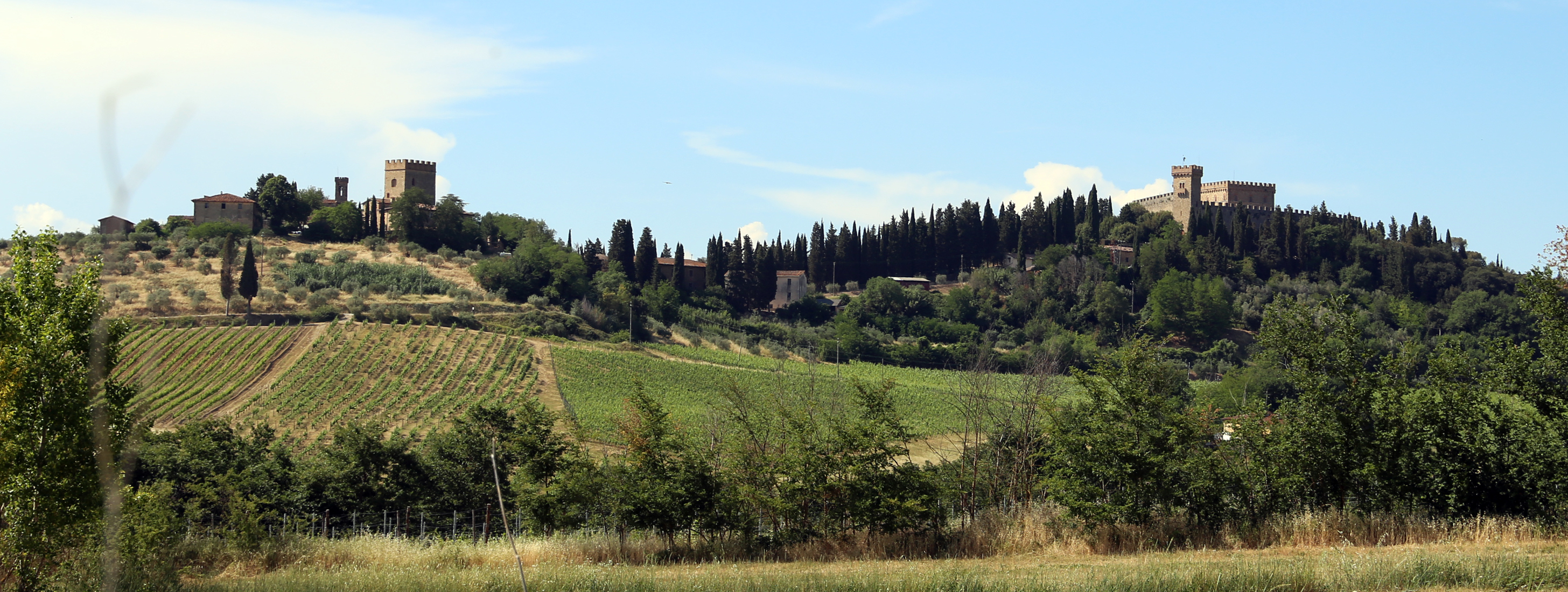 Castello di Strozzavolpe